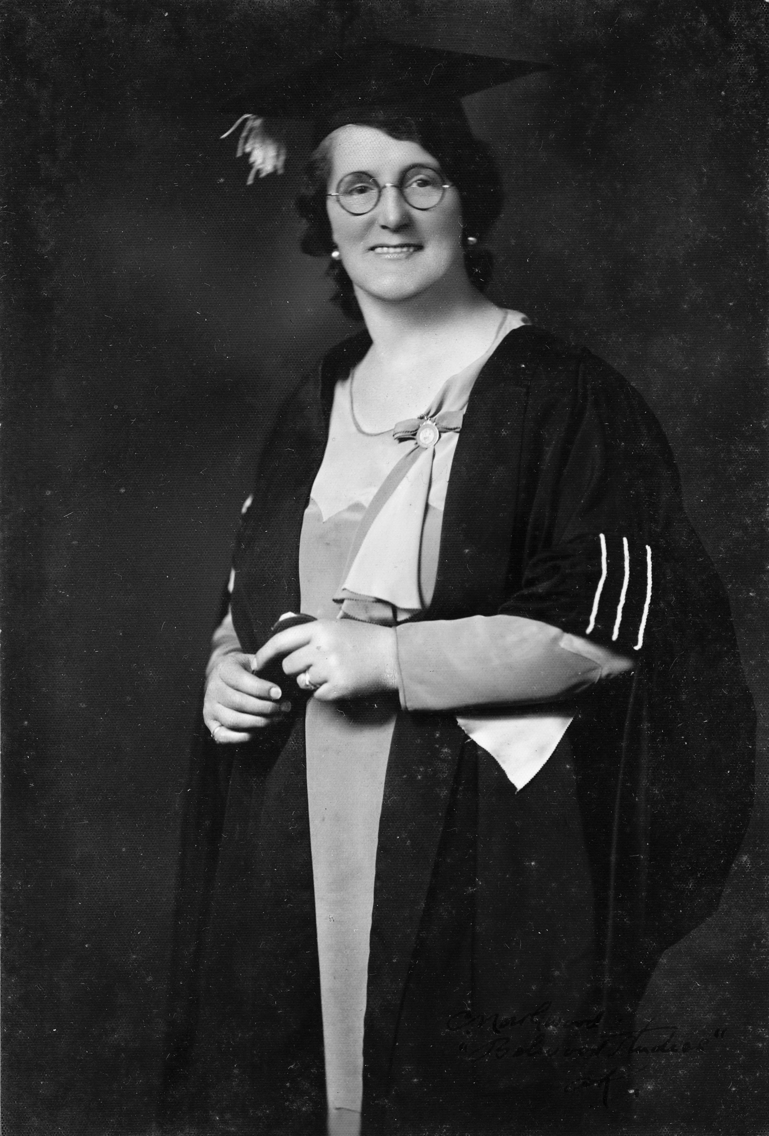 Portrait of Mary Dreaver, taken in 1934 by Hubert Charles Northwood of Auckland.